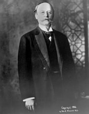 Portrait of Senator John Mellen Thurston of Nebraska